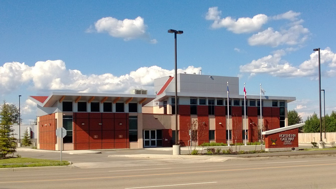 head office of Northern Gateway Public Schools (Regional Division No. 10) in downtown Whitecourt, Alberta, Canada